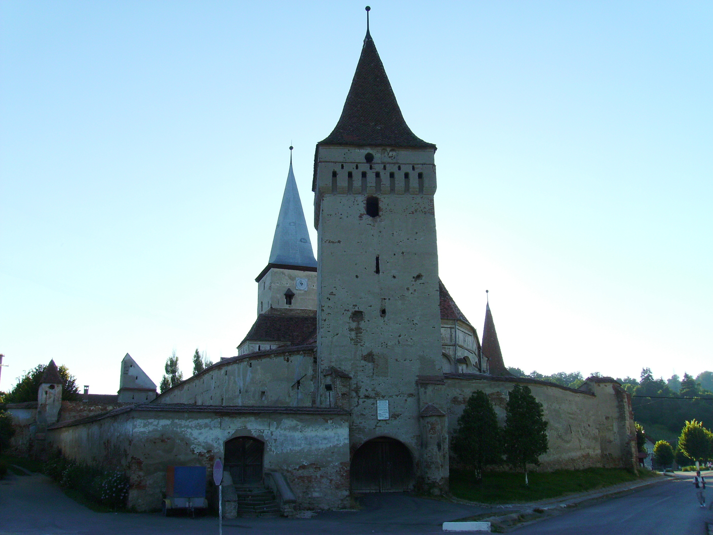 Mosna fortified church, Transilvania, Romania